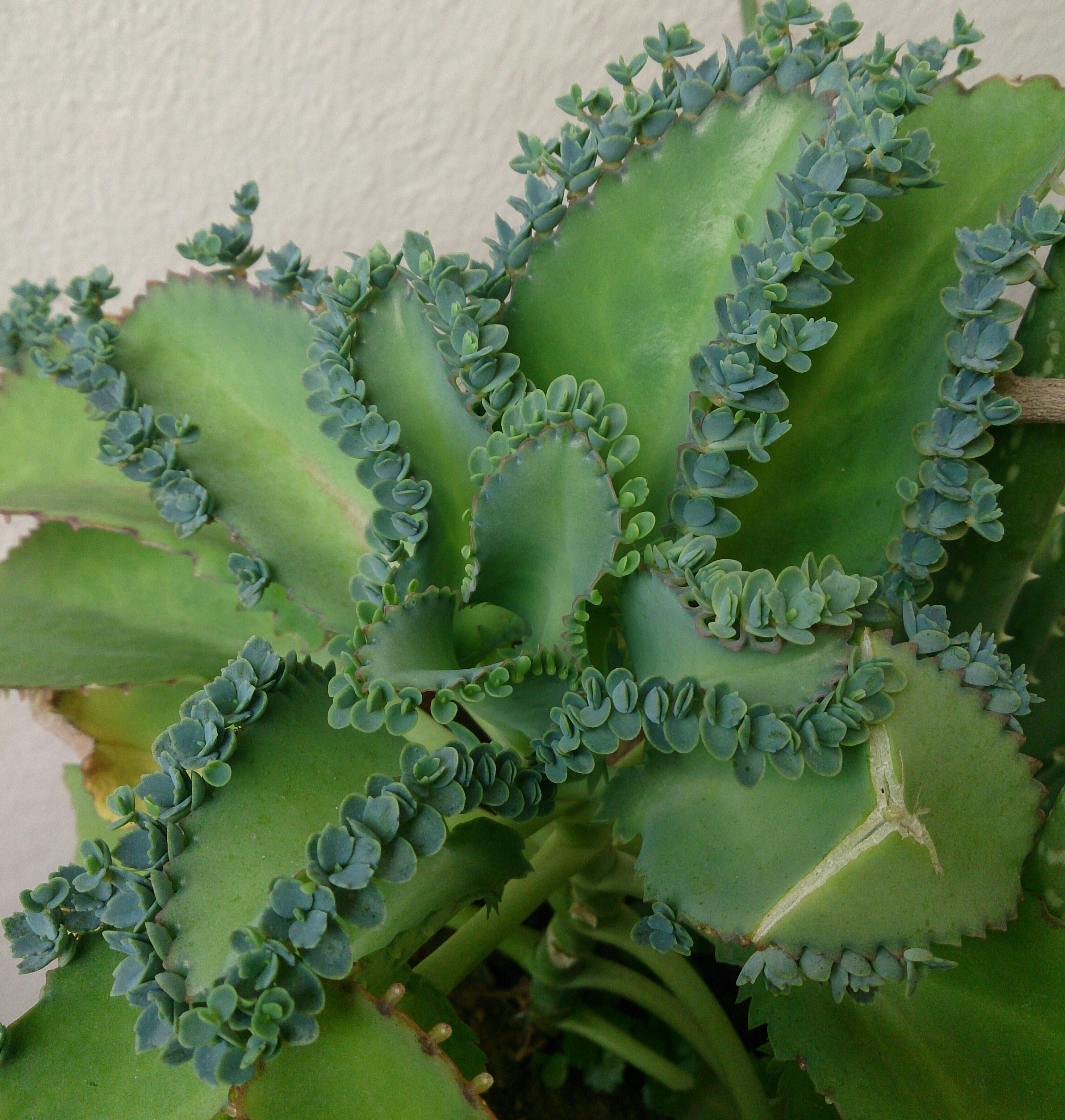 Bryophyllum, aka Life Plant. Reproduces asexually via buds along the margin of the leaf. Each bud drops off eventually and forms a new plant.